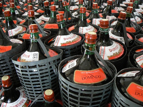 Bulk Argentine table wine